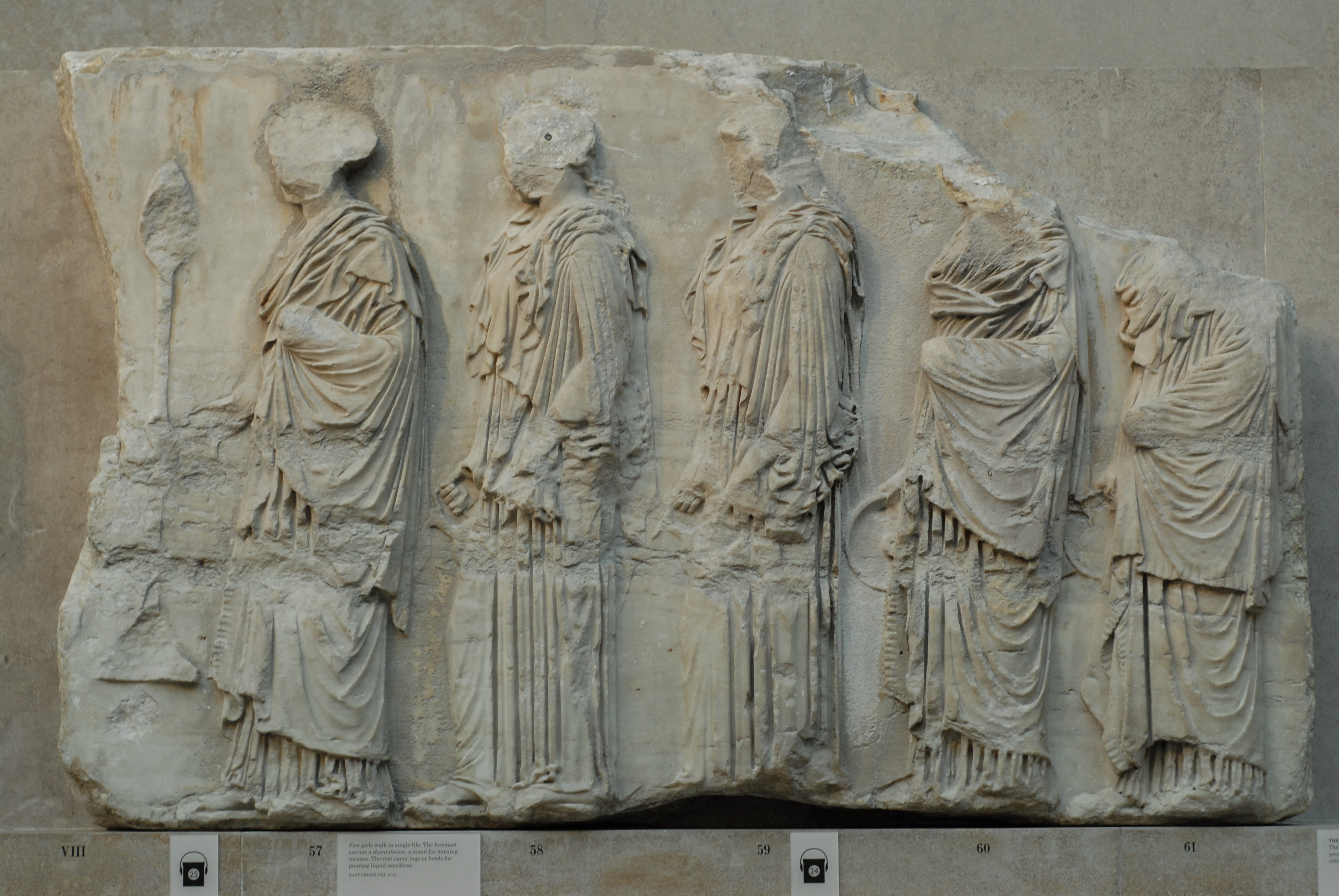 Thymiaterion and phiale bearers. Block VIII from the east frieze of the Parthenon, ca. 447–433 BC.